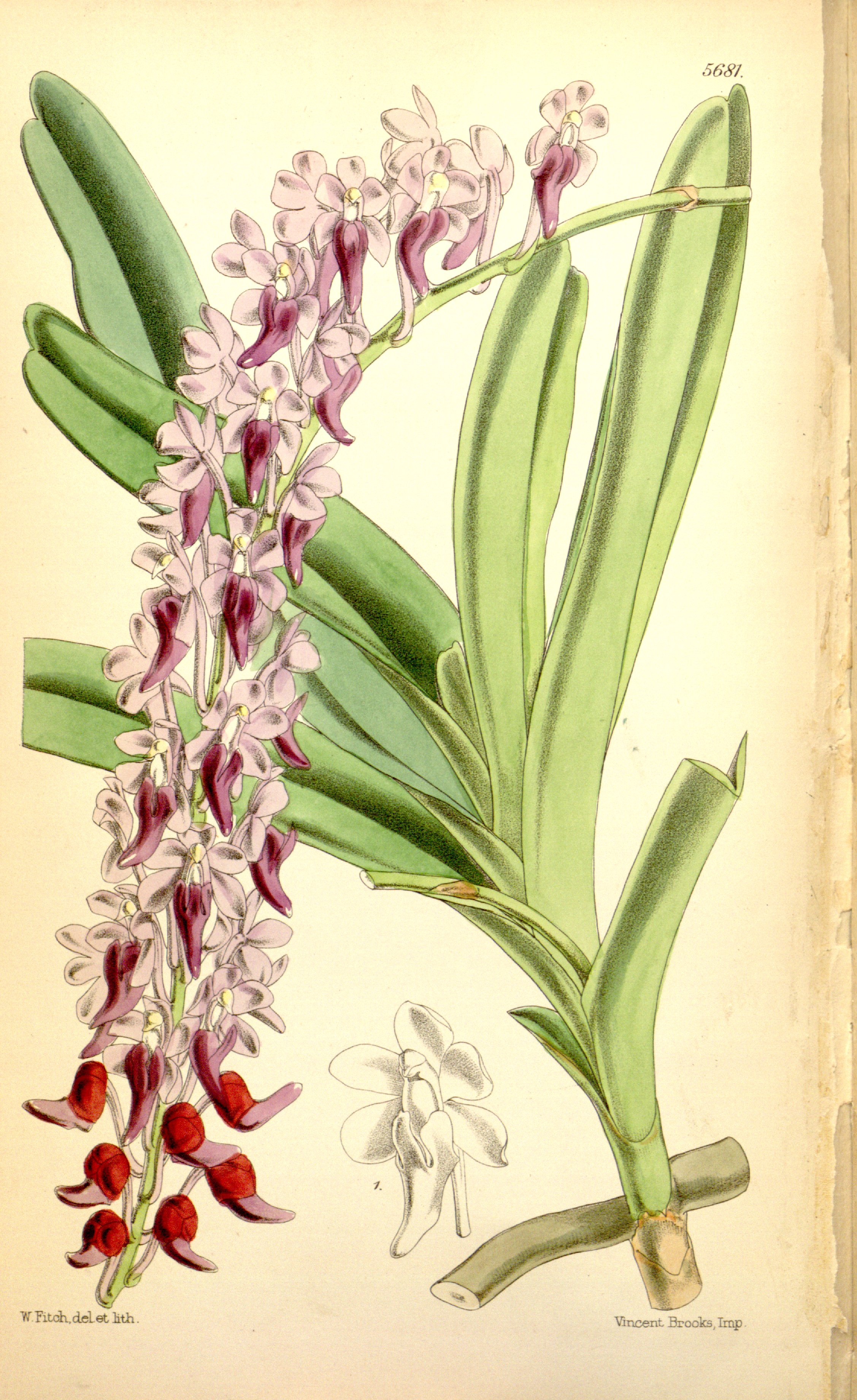 Illustration of Aerides huttonii (as syn. Saccolabium huttonii, spelled by Hooker as Saccolabium huttoni)